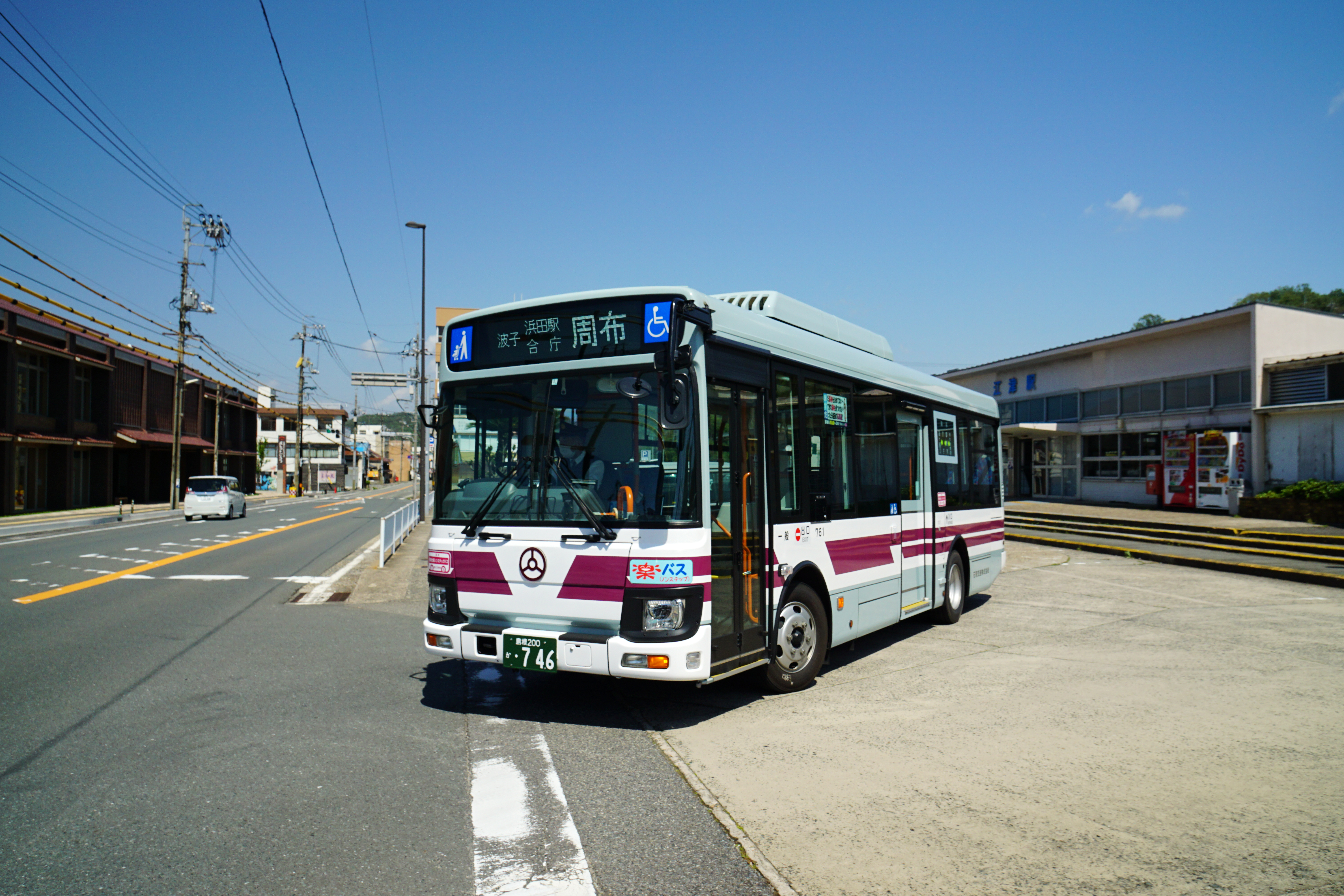 Gōtsu Station, Gotsu, Shimane prefecture, Japan